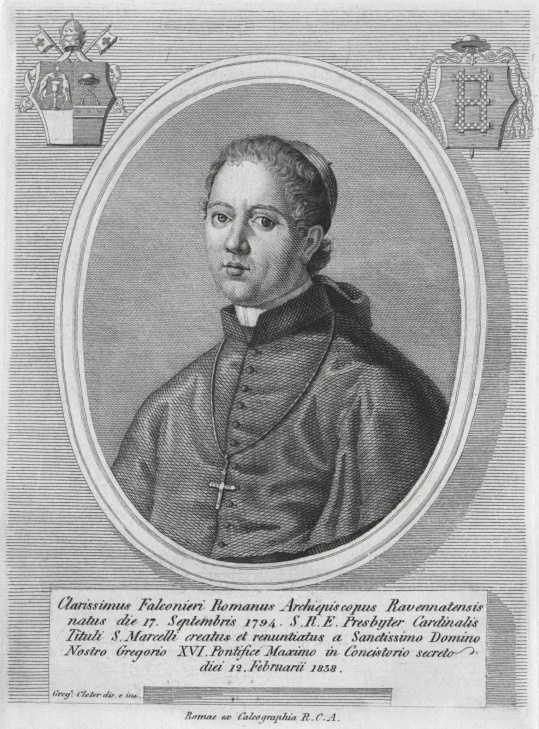 Kardinal Chiarissimo Falconieri Mellini (1794-1859)